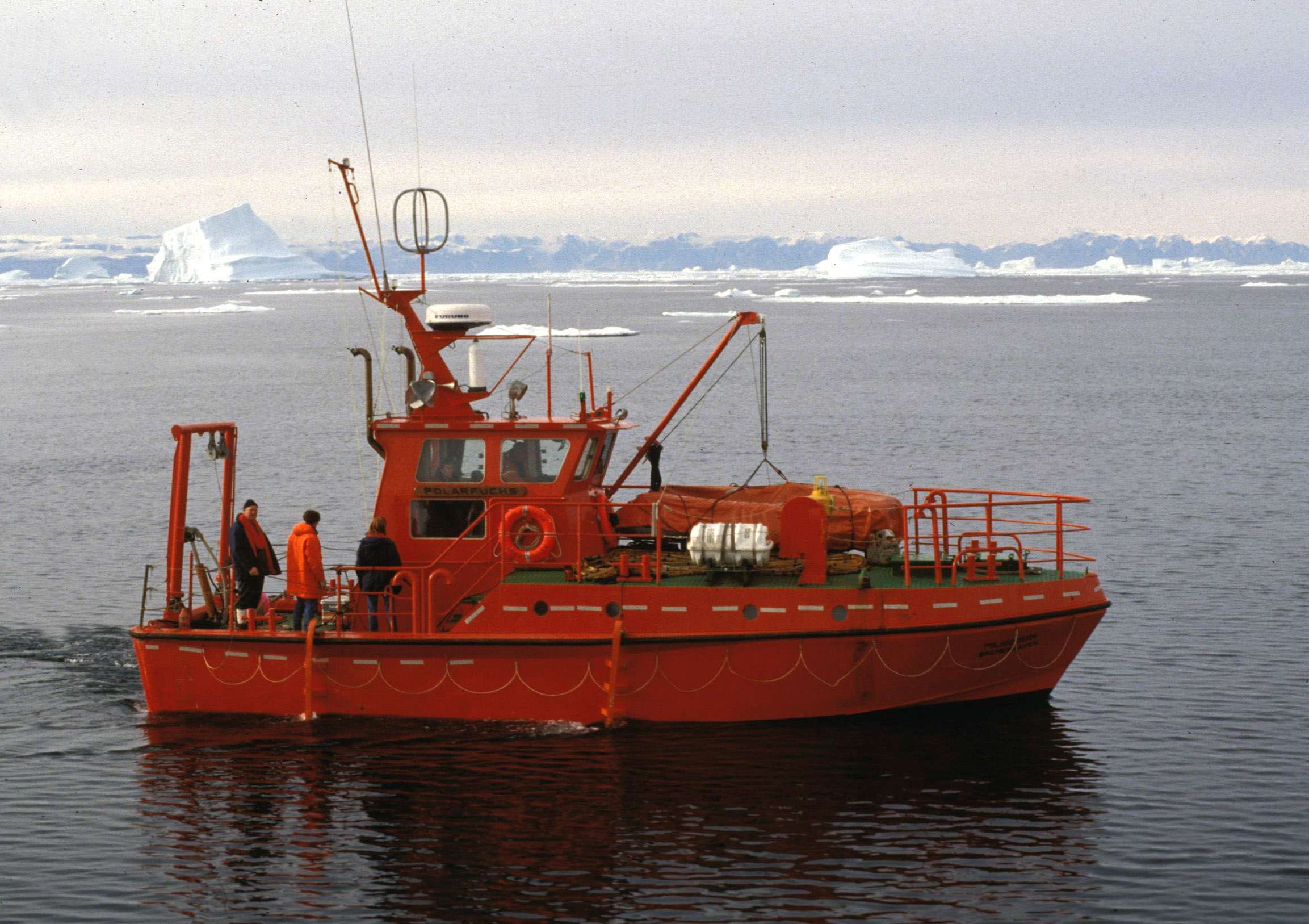 POLARFUCHS - dinghy of the research vessel POLARSTERN in the Scoresby Sund fjord system, Greenland during cruise ARK-X/2. (Since 1996 research boat of IFM-GEOMAR in Kiel, Germany as substitute for Sagitta.)